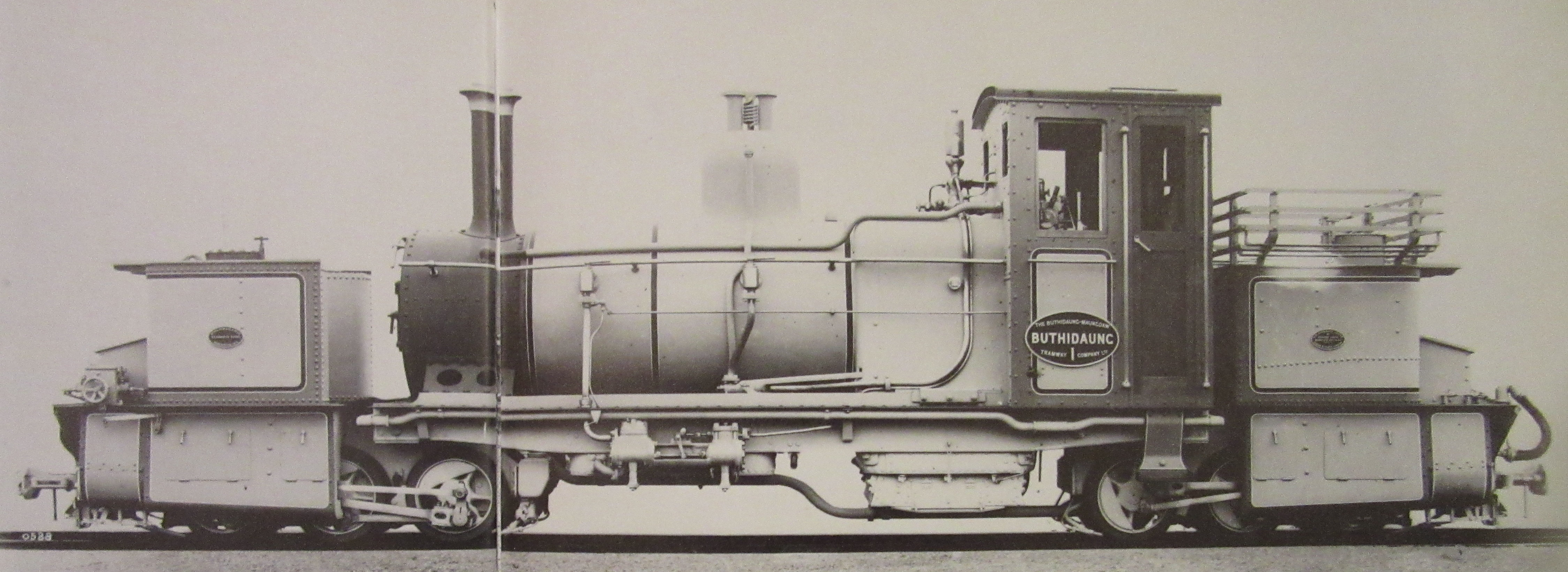 Builder's photograph of one of Beyer Peacock's Garratt locomotives built for the Arakan Light Railway in Burma